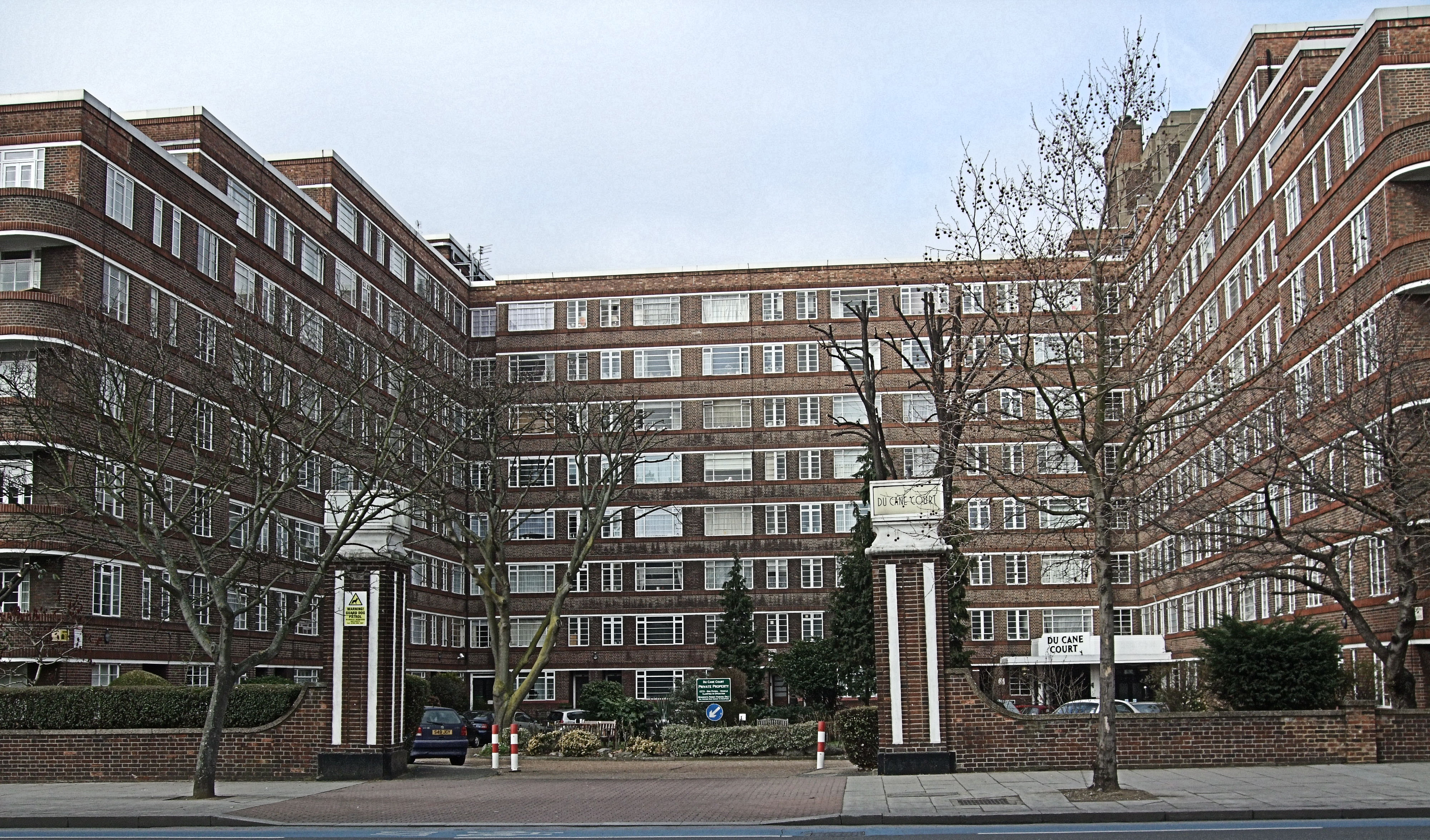 Du Cane Court is an Art Deco apartment block on Balham High Road, Balham, south London. A distinctive local landmark, it was opened in 1934 and, with 676 apartments.